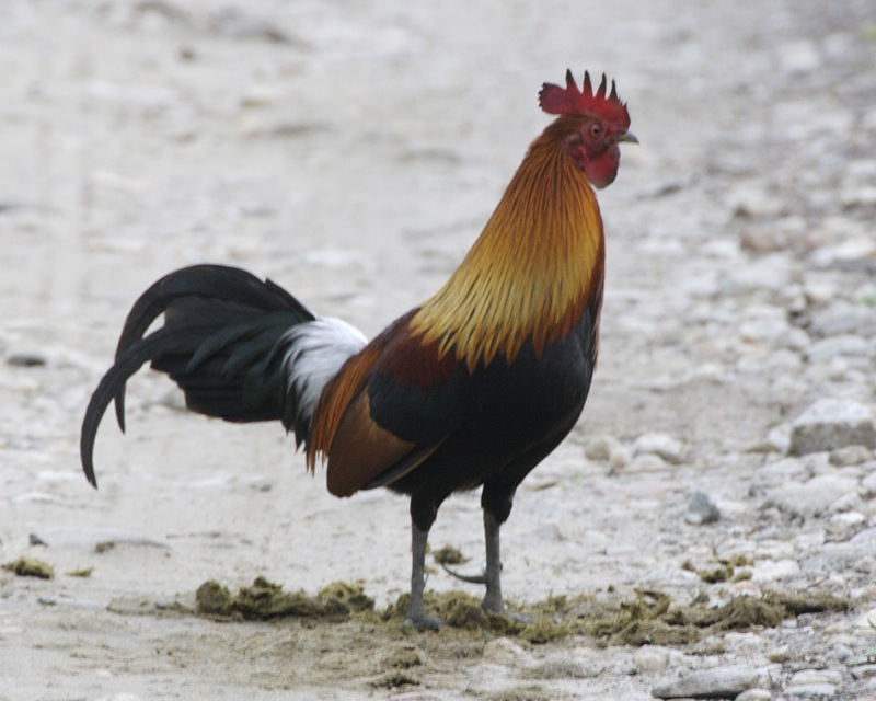 Red Junglefowl Gallus gallus - male. Kaziranga, Assam, India; 15 April 2008.